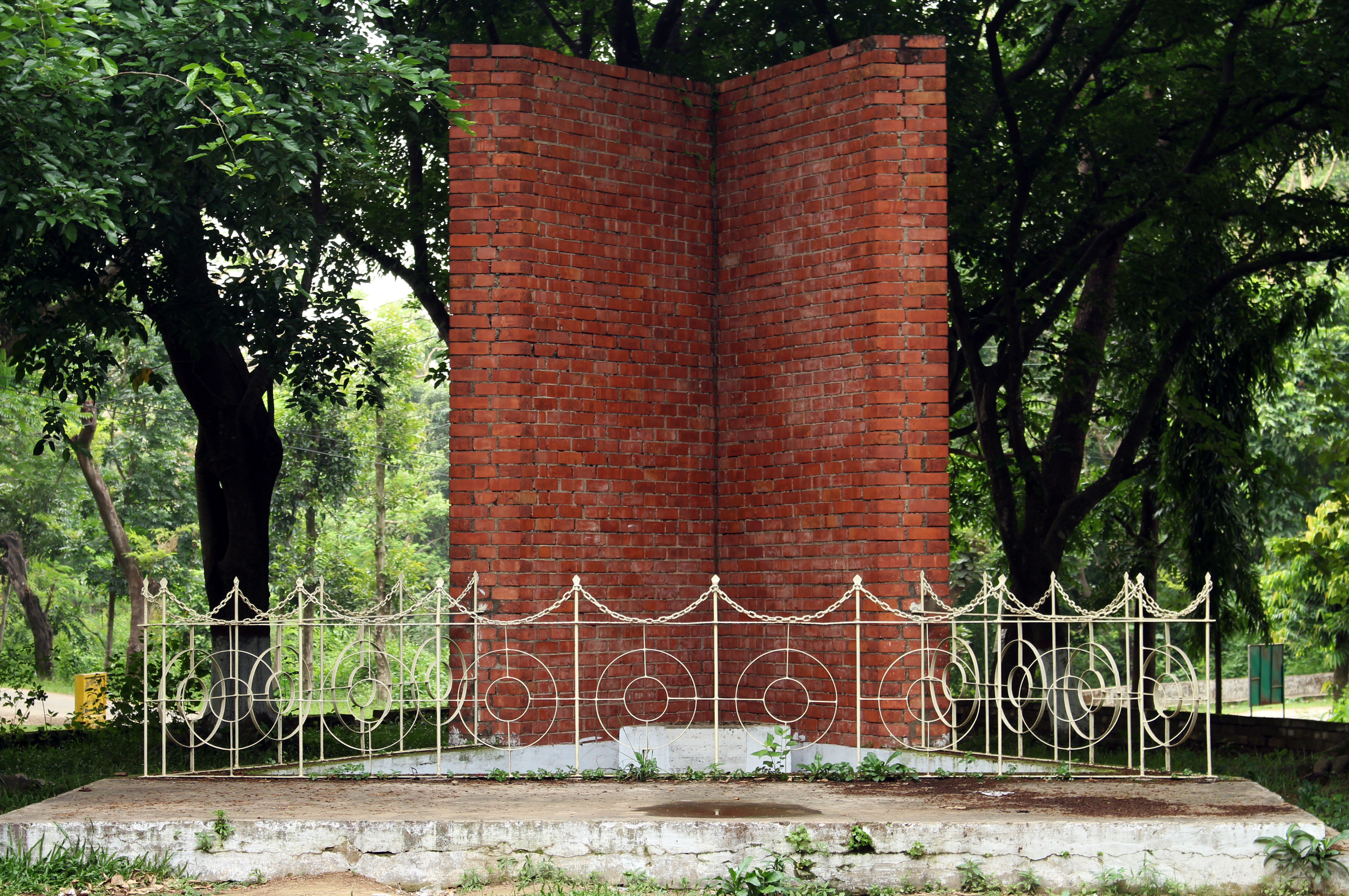 Buddhijibi Smriti Stambh (Intellectuals Memorial) (north exposure, west-east axis, front), created by Rashid Choudhury, University of Chittagong